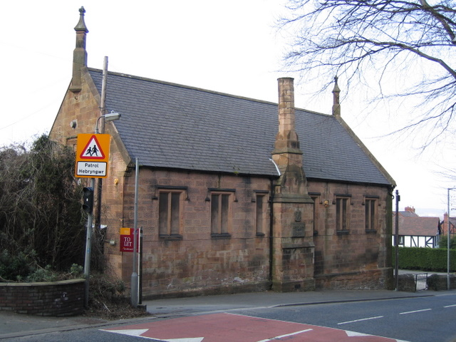 Masonic Hall, Hawarden. Formerly the Boys Elementary School, built in 1834, the building was taken over by the Masons in 1912. After some internal alterations were carried out they convened their first meeting on 27th January 1913 and a plaque on the prominent chimney carries that date. On the north east corner of the building there is a First Geodetic Levelling bench mark that dates to the period 1851-52 - see 1479568